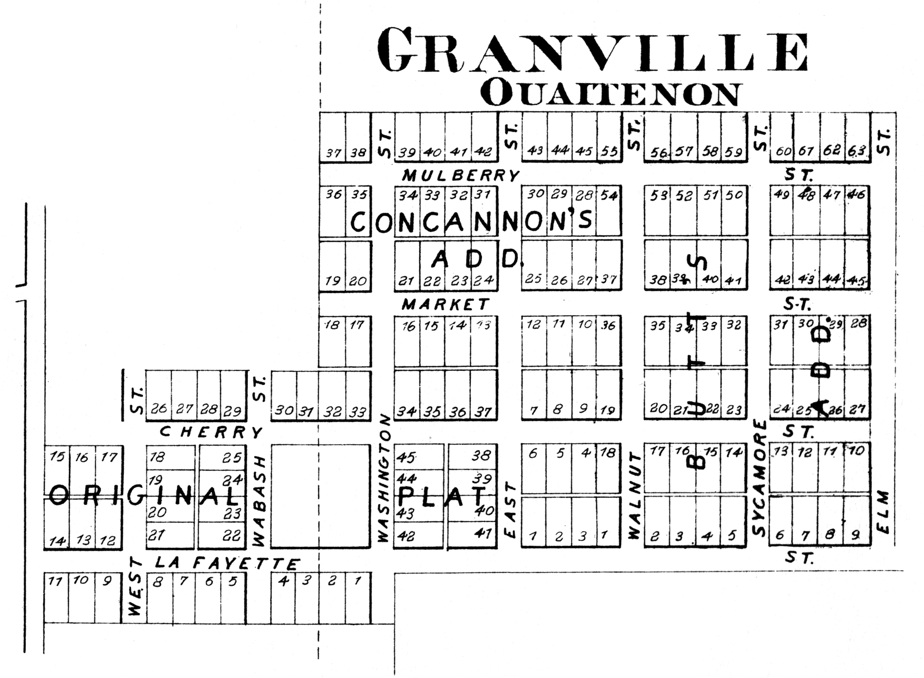 An 1878 map of Granville (also known as Weaton or Ouiatenon) in Tippecanoe County, Indiana.